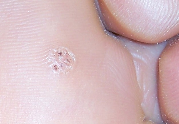 Showing a veruca just behind the toes on the right foot of a 49 year old female. Note that the skin striæ can be observed as going around the lesion, at least on one side.